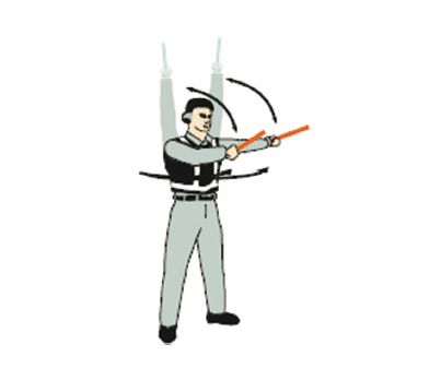 MARSHALLING SIGNALS from a signalman/marshaller to an aircraft / STANDARD EMERGENCY HAND SIGNALS. Description: "Proceed to next signalman/marshaller or as directed by tower/ground control". Point both arms upward; move and extend arms outward to sides of body and point with wands to direction of next signalman/marshaller or taxi area.